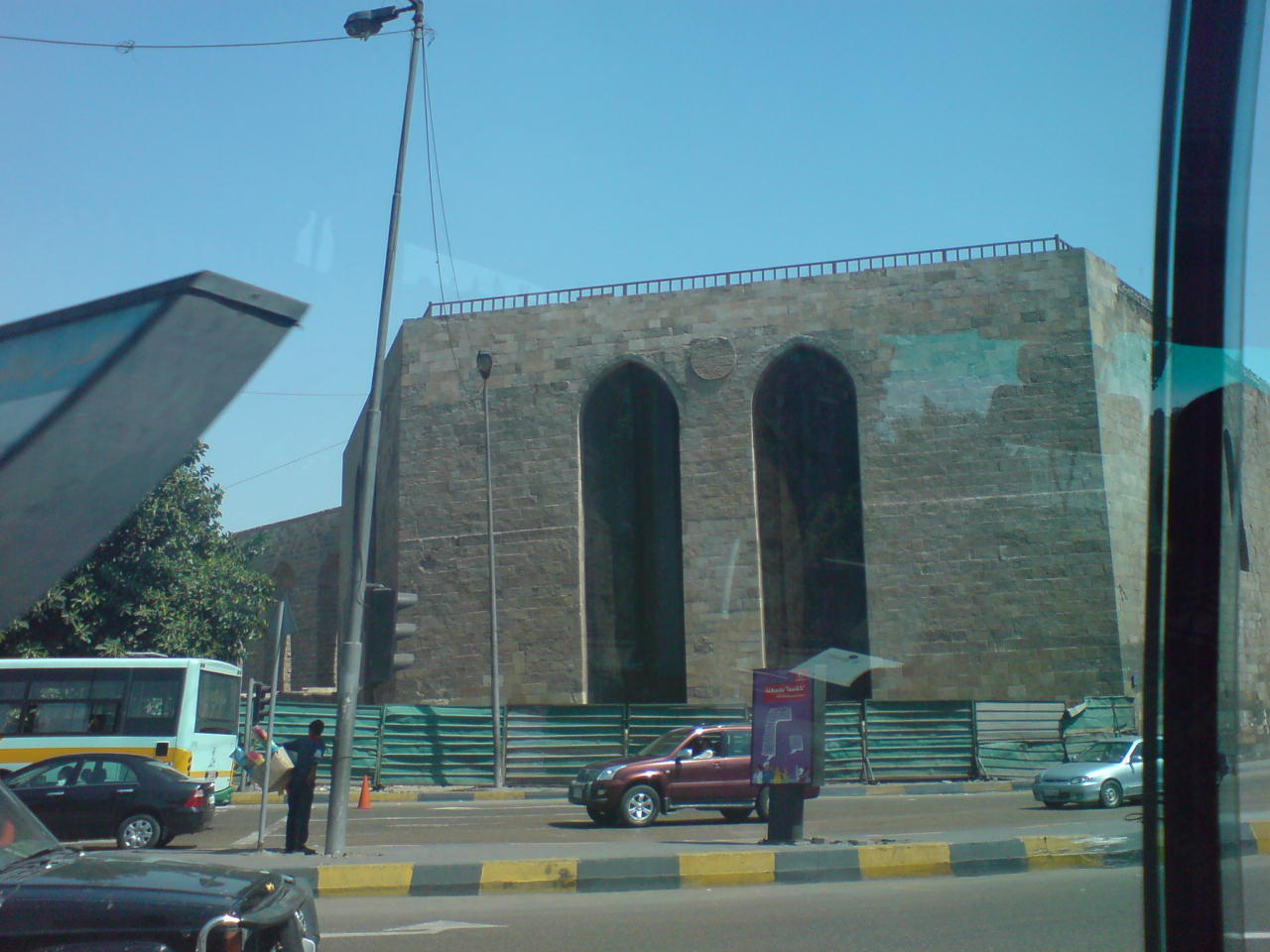 Old aqueduct in Cairo